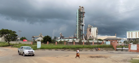 Chilanga Cement 2016